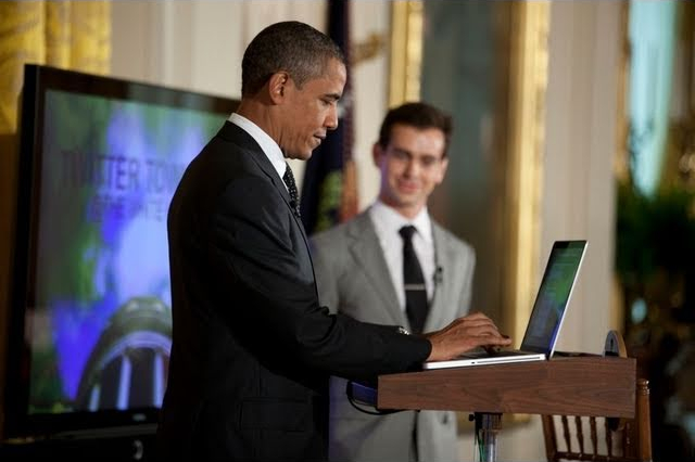 Barack Obama responding to tweets on July 6, 2011